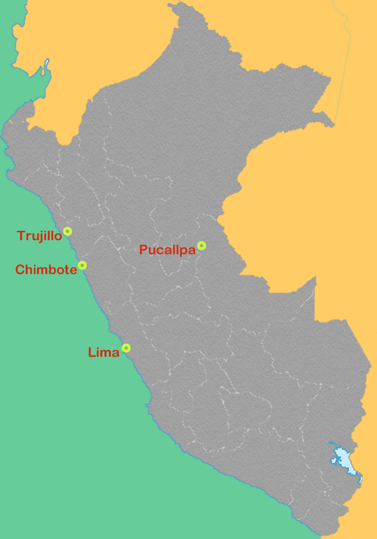 Mapa de sedes de los equipos participantes de la LNSV